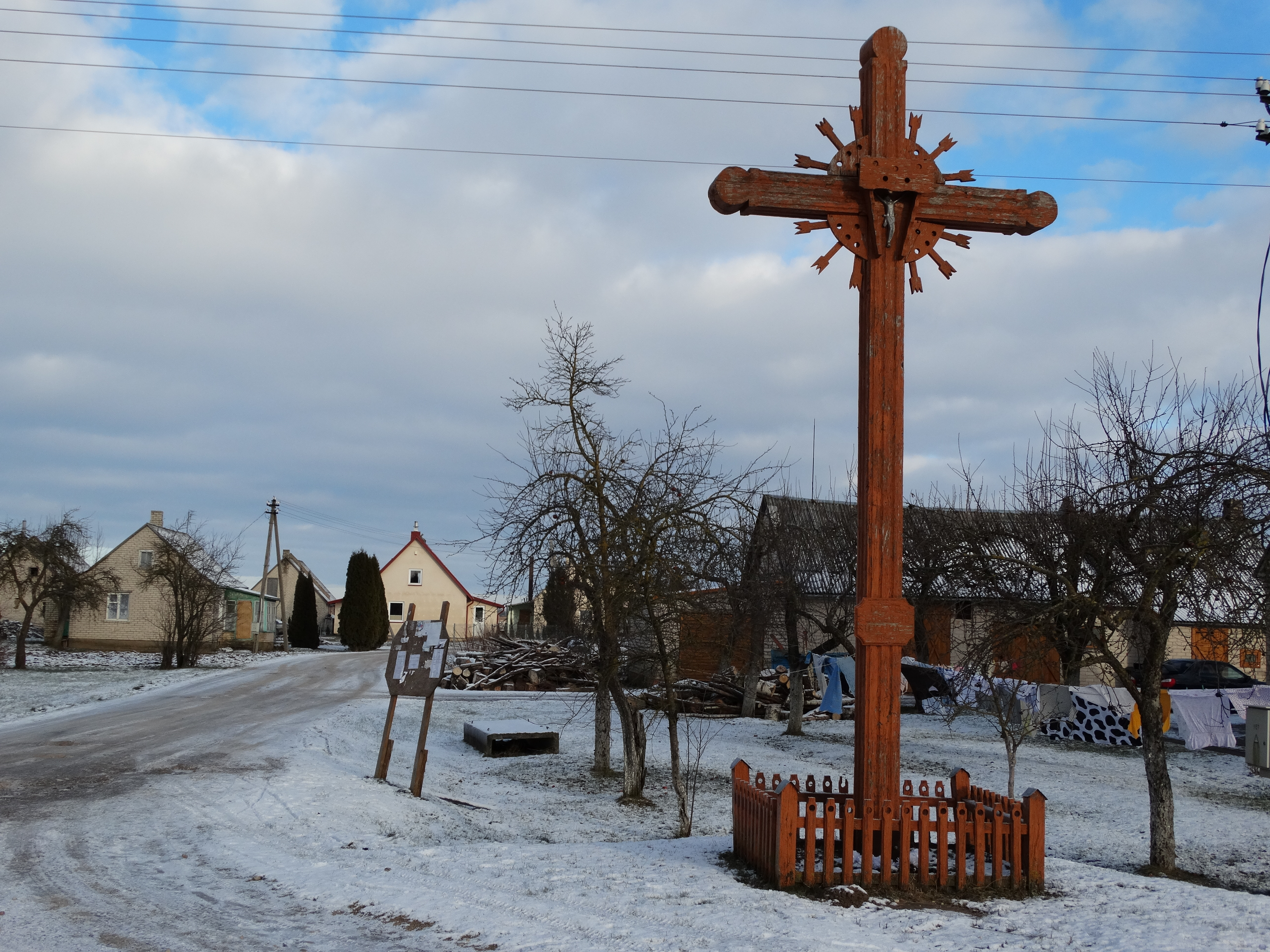 Cross, Naujamiestis, Panevėžys District, Lithuania